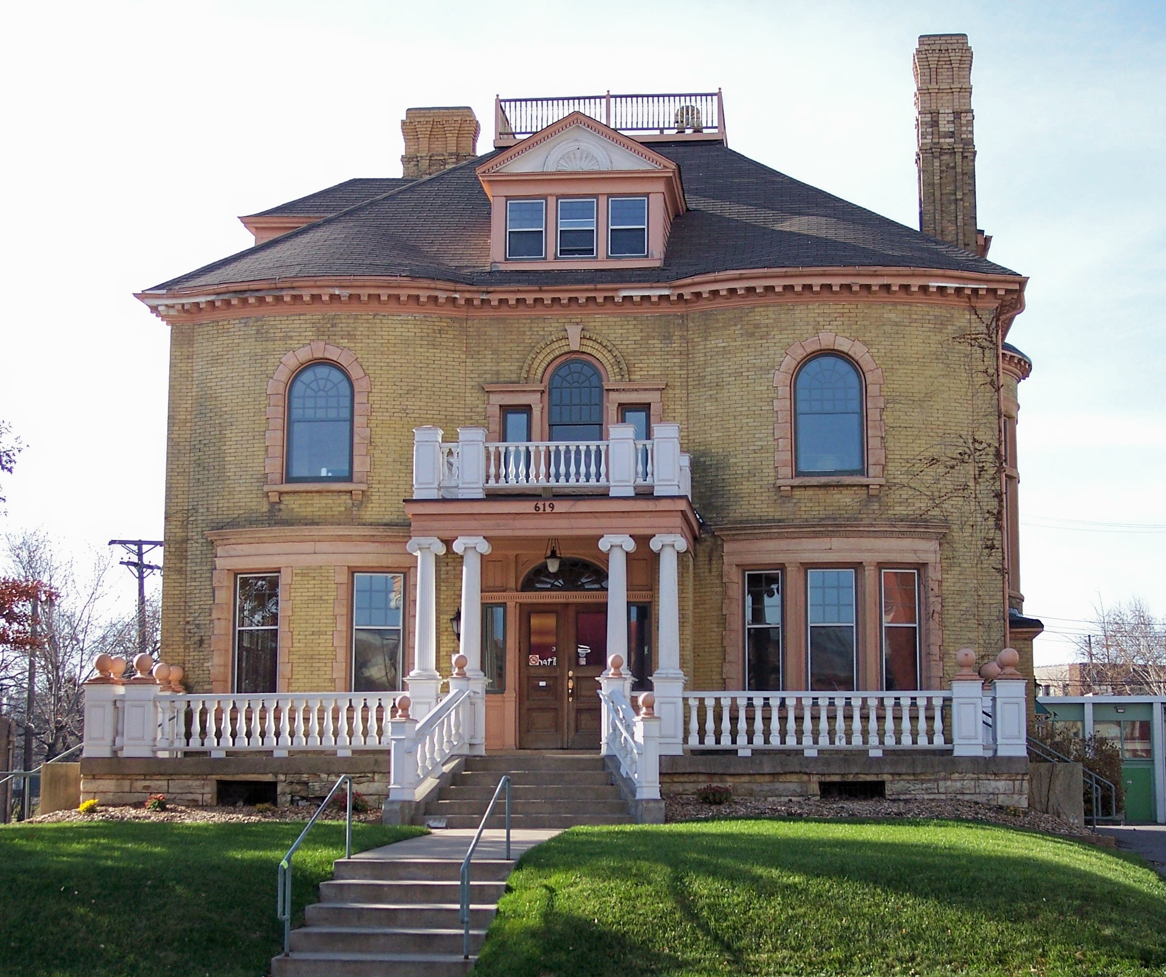 The Hinkle-Murphy House in the Elliot Park neighborhood of Minneapolis, Minnesota